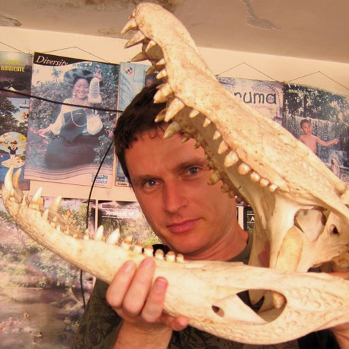 Photo of zoologist Vladimir Dinets holding a skull of a large Black Caiman, Melanosuchus niger, photographed in Puerto Francisco de Orellana, Ecuador, in December 2010.